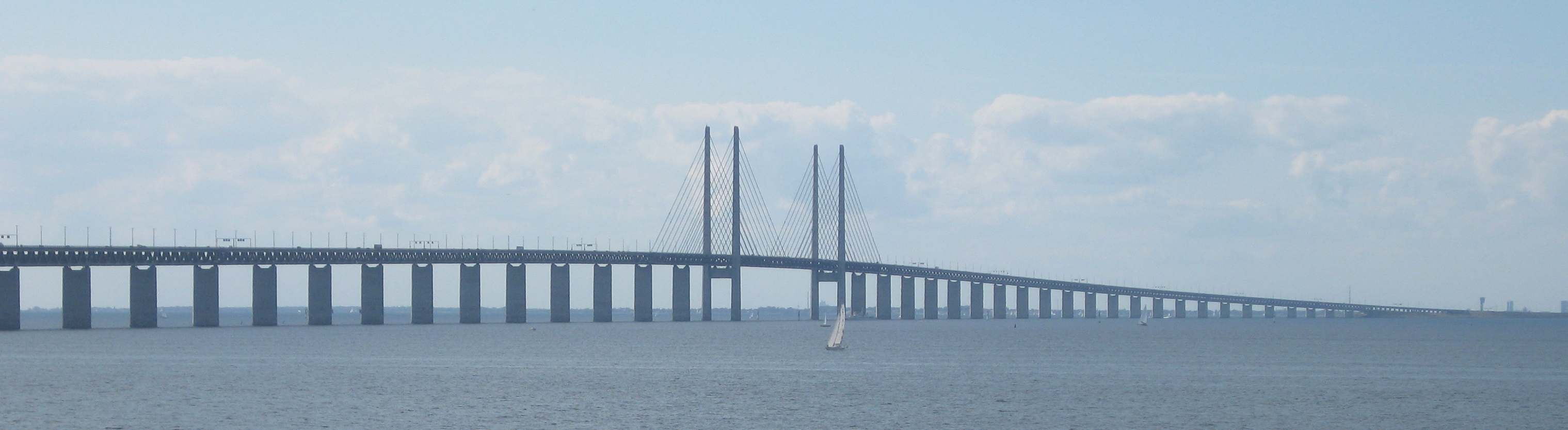 The Öresund Bridge from Luftkastellet